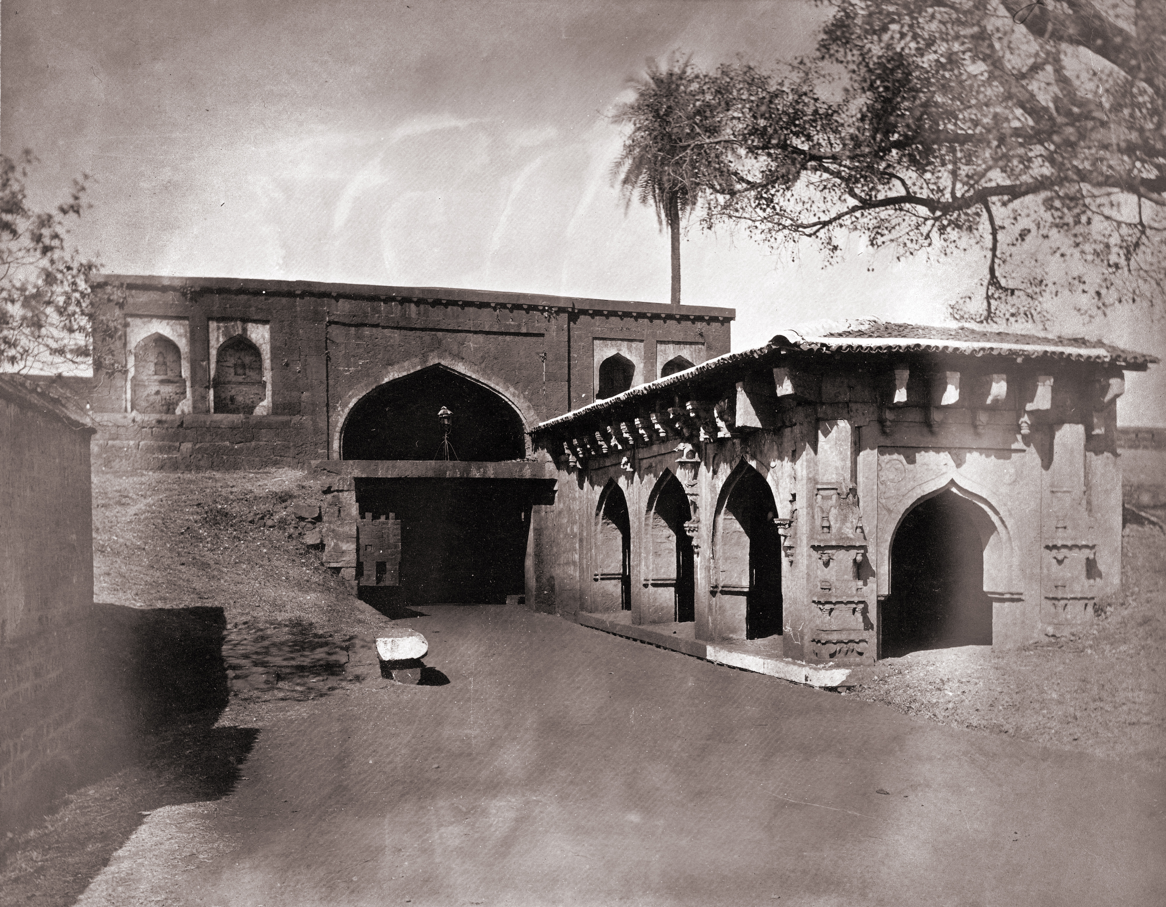 General view of the gateway of the fort, Belgaum